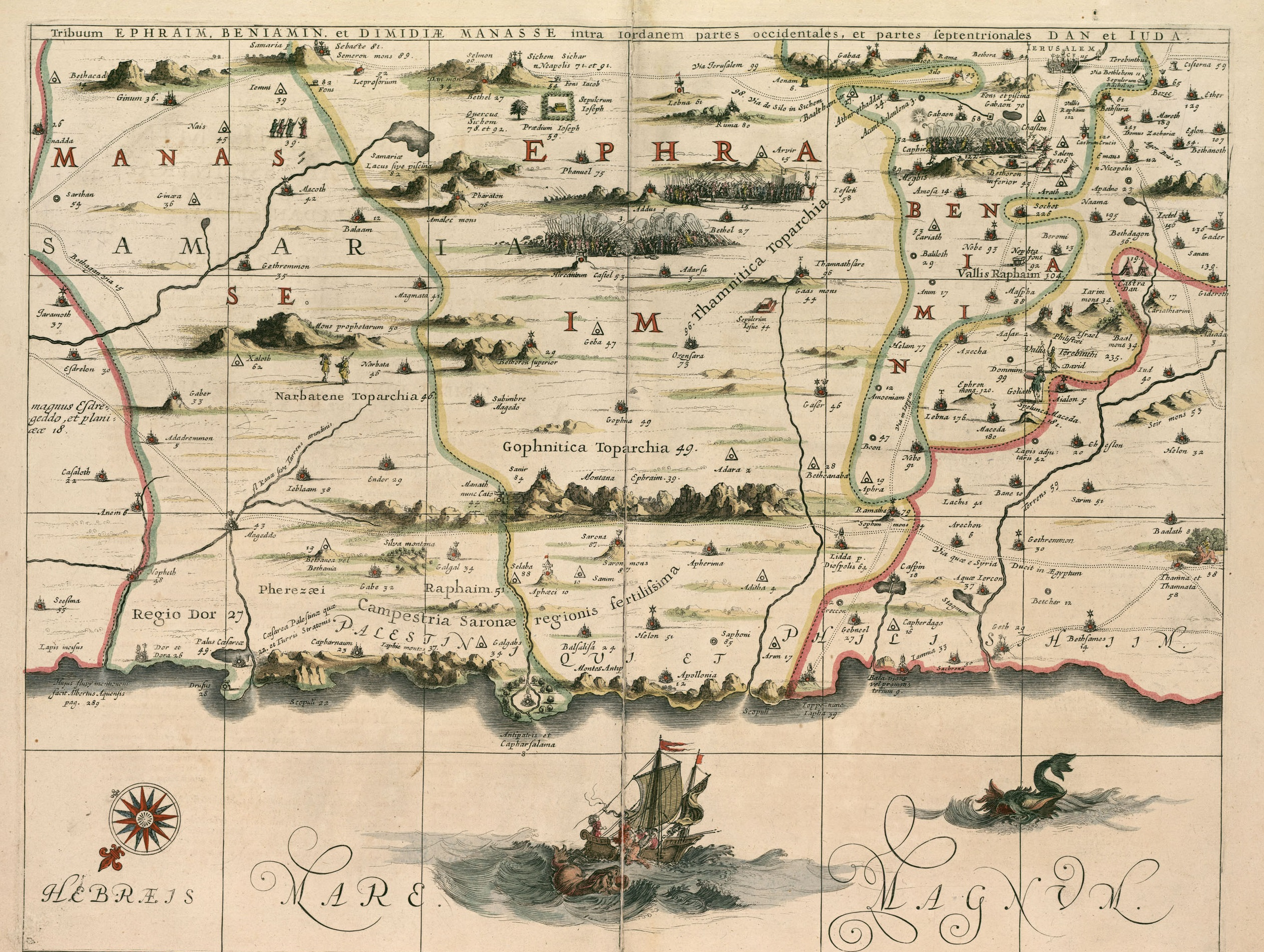 A map of the Tribes of Benjamin and Ephraim from 1658